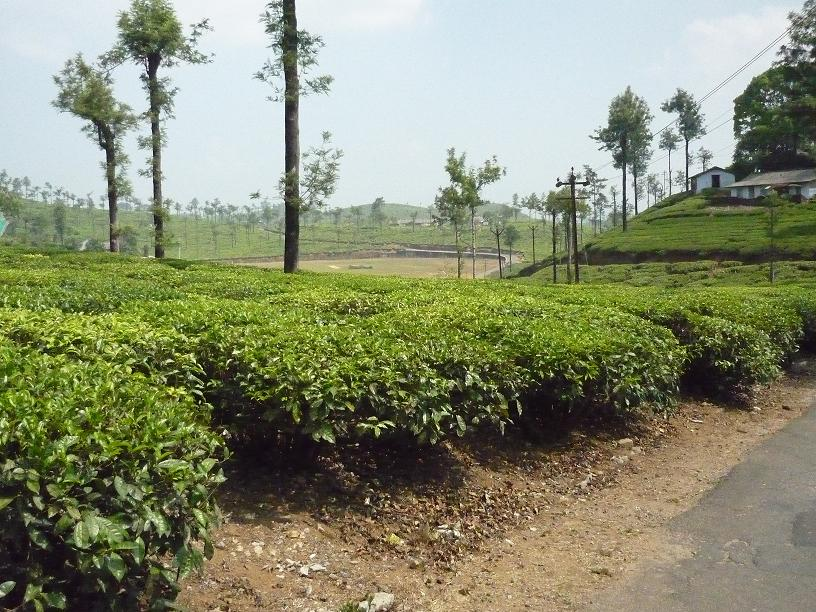 View of a Club Ground in Valparai